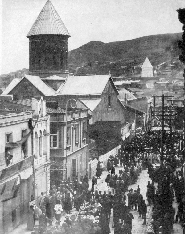 Ilia Chavchavadze's funeral in Tbilisi Georgia